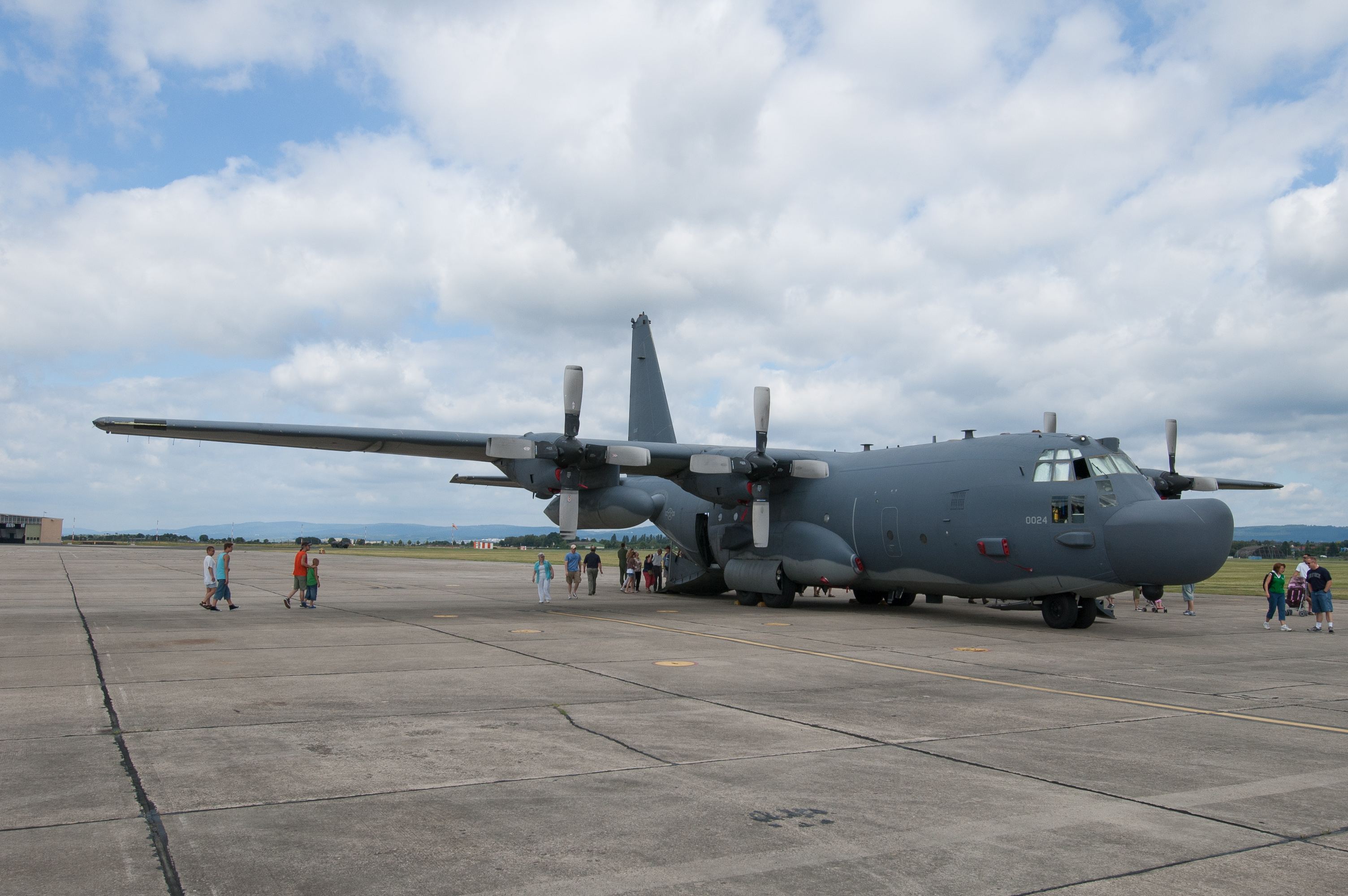 A Lockheed Hercules MC-130H Combat Talon II on Wiesbaden Army Airfield during Open House Day commemorating 60th Berlin Airlift Anniversary on June 29, 2008.